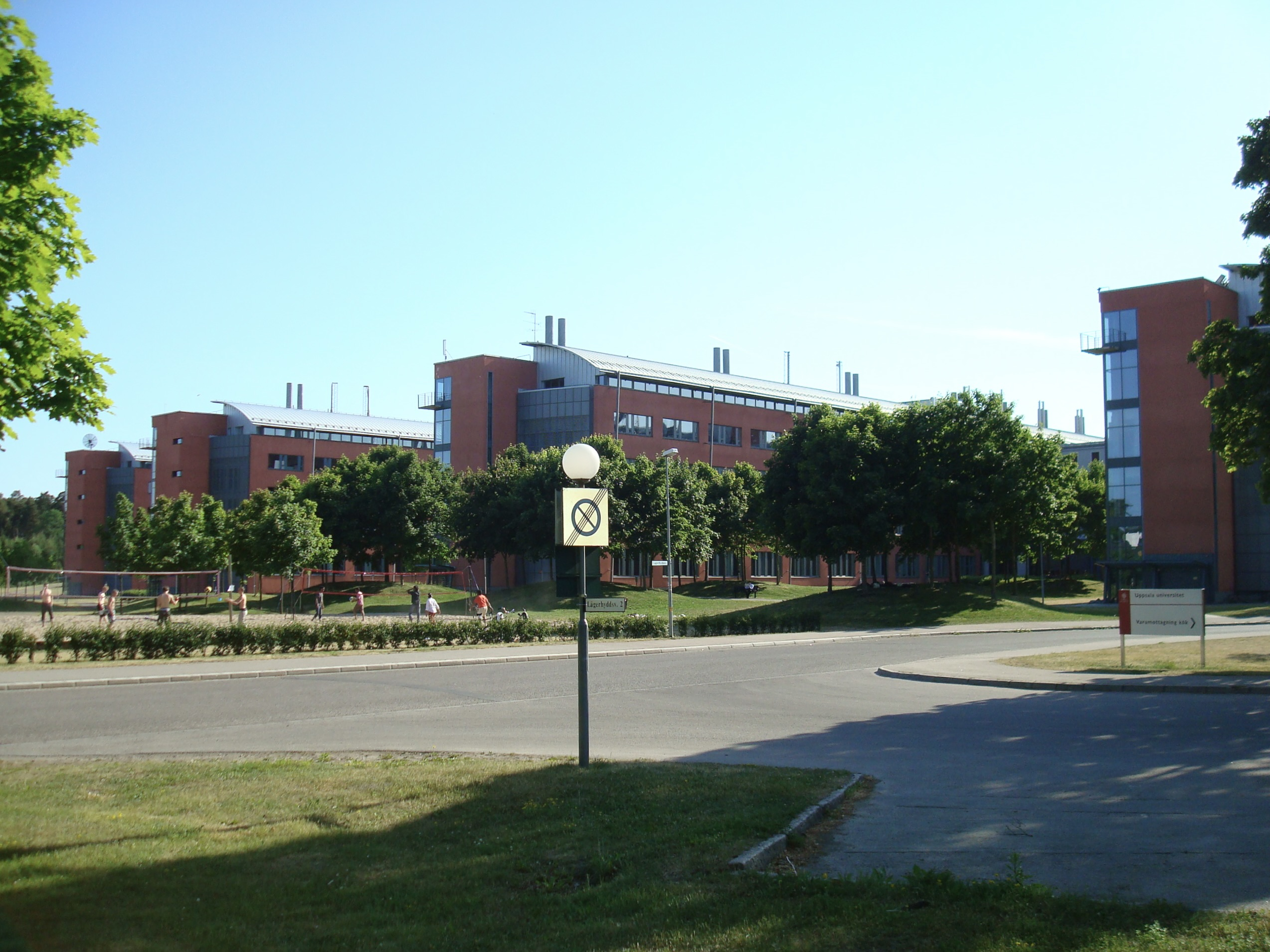 Ångströmlaboratoriet from side